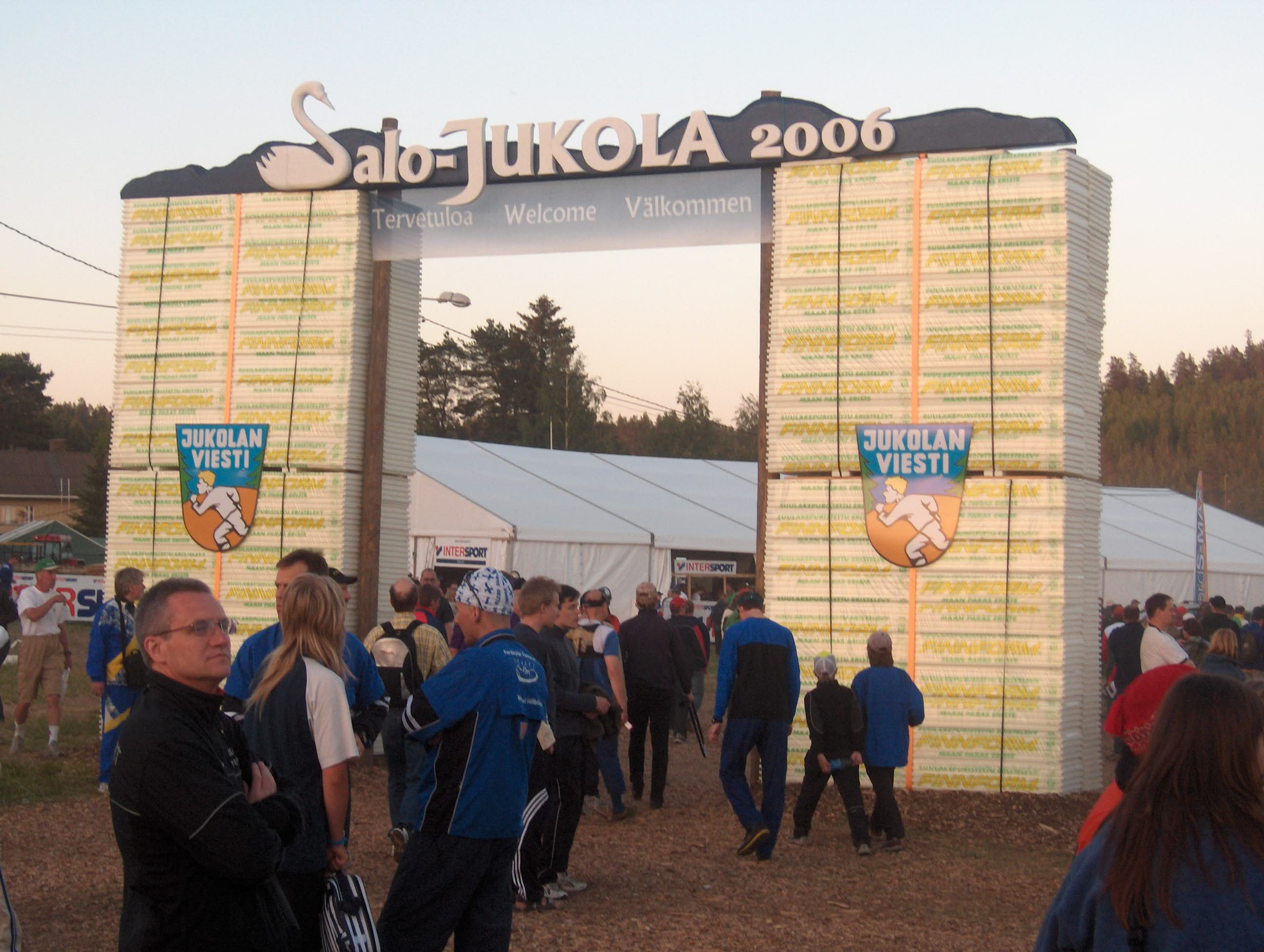 Gate of Salo-Jukola 2006